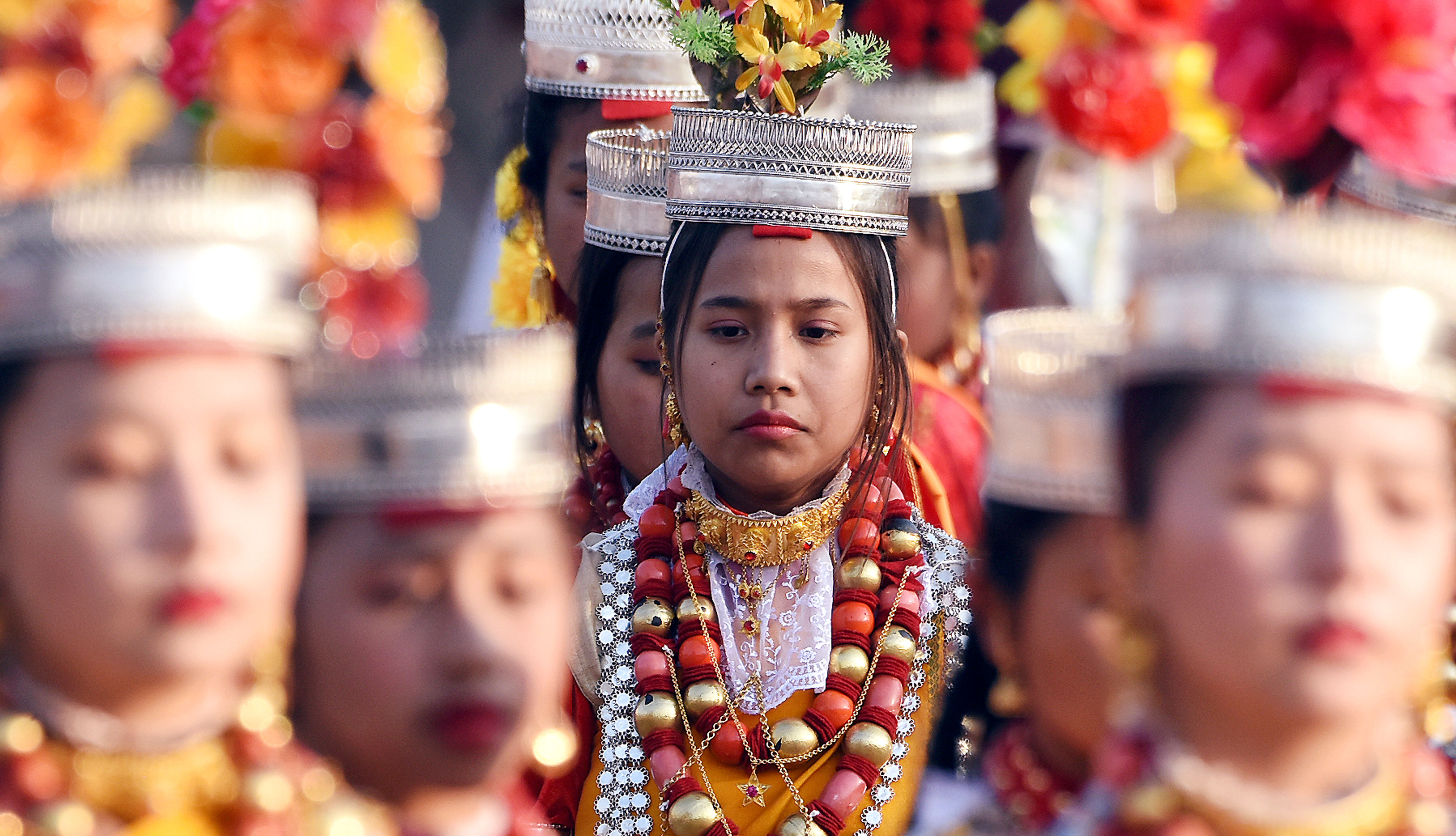 SHAD SUK MYNSIEM Shad suk Mynsiem organized by the Seng Khasi Seng Kmie Shillong is by far the biggest and most colourful,where people from far and near come thronging to witness the virgin maidens and men of all ages dance to the seven beats of drums in their finest attire of fine silk,gold and silver. The Seng Khasi had been able to preserve this dance,which is one of the most important cultural heritage,not only in the performing dance aspect,but also the traditional beats of drums,cymbals,and the shrill piping sound of the tangmuri.